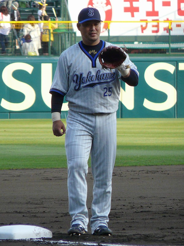 Shuichi Murata, infielder of the Yokohama BayStars, at Hanshin Koshien Stadium.